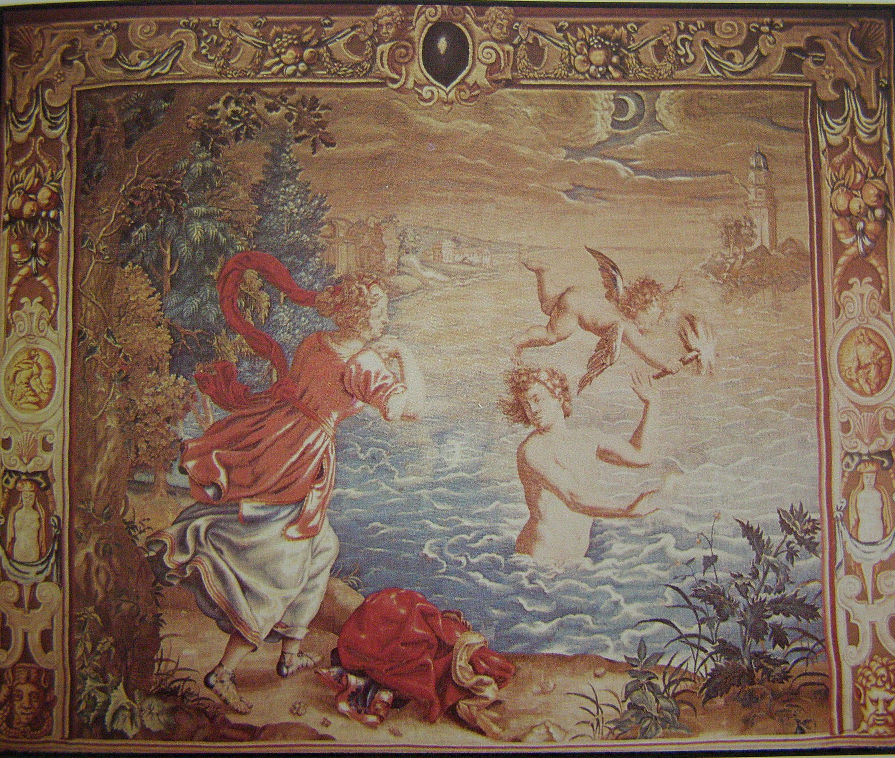 One of the six tapestries on display in the Primate's Palace, Bratislava, Slovakia. Designed by Francis Cleyn (c. 1582–1658) and woven in the 1630s at the Mortlake Tapestry Works managed by a Dutchman, Phillip de Maecht, at Mortlake, London, the tapestries relate the Greek myth of Hero and Leander. They were discovered folded behind wallpaper in the vestibule of the Palace's Hall of Mirrors.